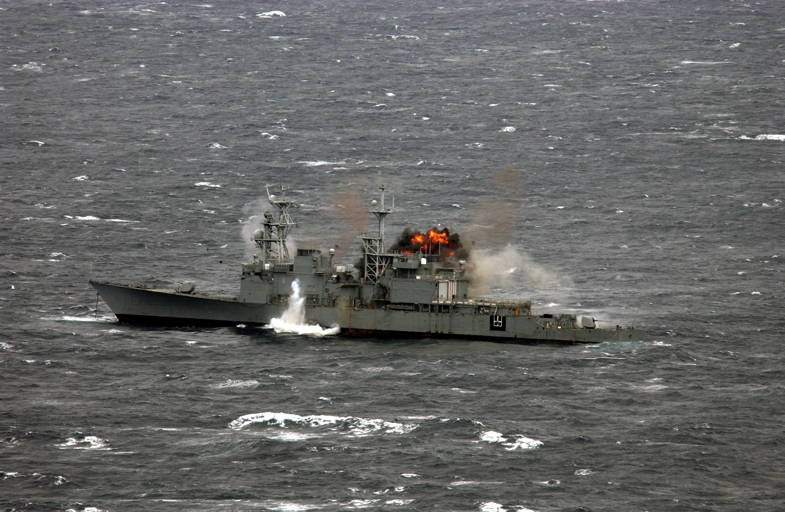 Atlantic Ocean (Nov. 13, 2004) - Explosives charges provided by Explosive Ordnance Disposal Mobile Unit (EODMU) 2 detonate aboard the U.S. Navy’s decommissioned destroyer Hayler (DD 997), during a Sink Exercise conducted 300 miles off the East Coast of the United States. The amphibious assault ship USS Saipan (LHA 2) along with the "Chargers" of Helicopter Combat Support Squadron Six (HC) 6 participated in the four-day exercise held Nov. 12-14. Hayler was the last Spruance-class of destroyers built by the Navy, and was decommissioned on Aug. 25, 2003. All decommissioned ships receive a thorough inspection by the EPA before sinking, and will now act as an artificial reef for deep-sea marine life. The sinking of these ships provides unique weapons training opportunities. U.S. Navy photo by Photographer’s Mate 1st Class Brien Aho (RELEASED)